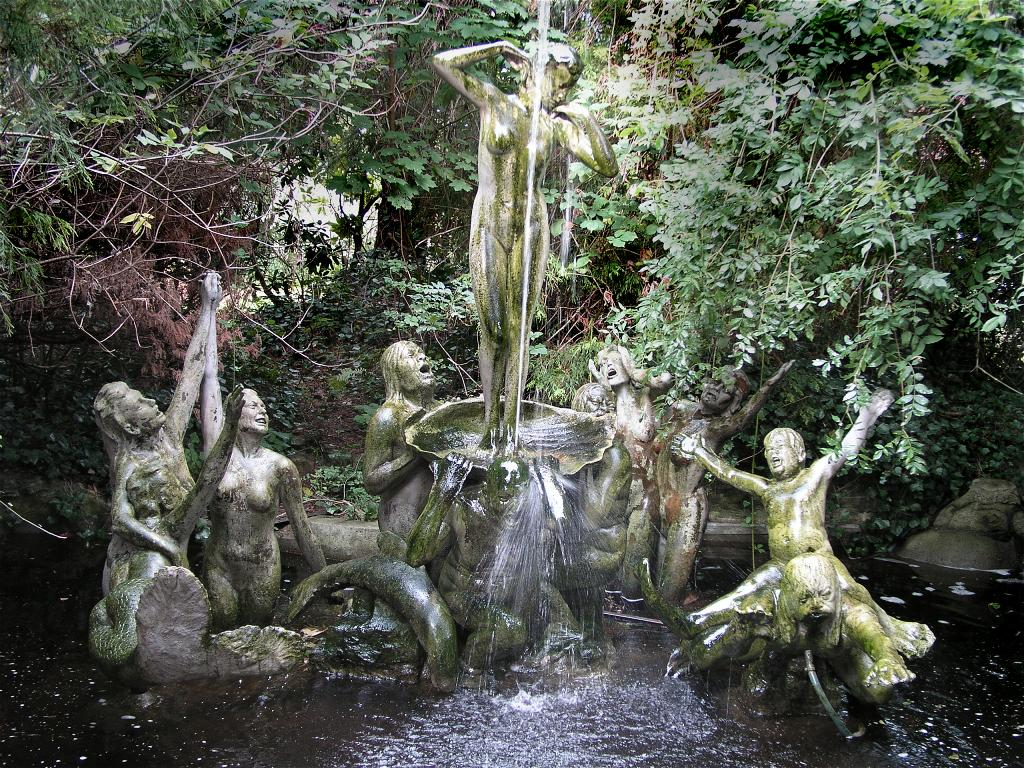 Bremerhaven, Germany: Thiele's garden, sculpture of the "Birth of the Venus"; photo taken in 2006